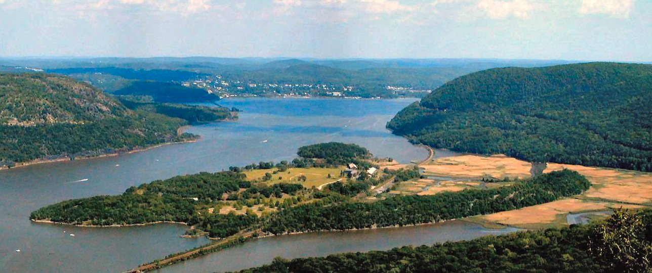 Modified version of Image:Bear Mountain originally by User:Mwanner. Cropped to illustrate Iona Island. Train trestle is at bottom left, and causeway cuts through the tidal marshes bottom right. Buildings are administrative and storage warehouses for the parks department.